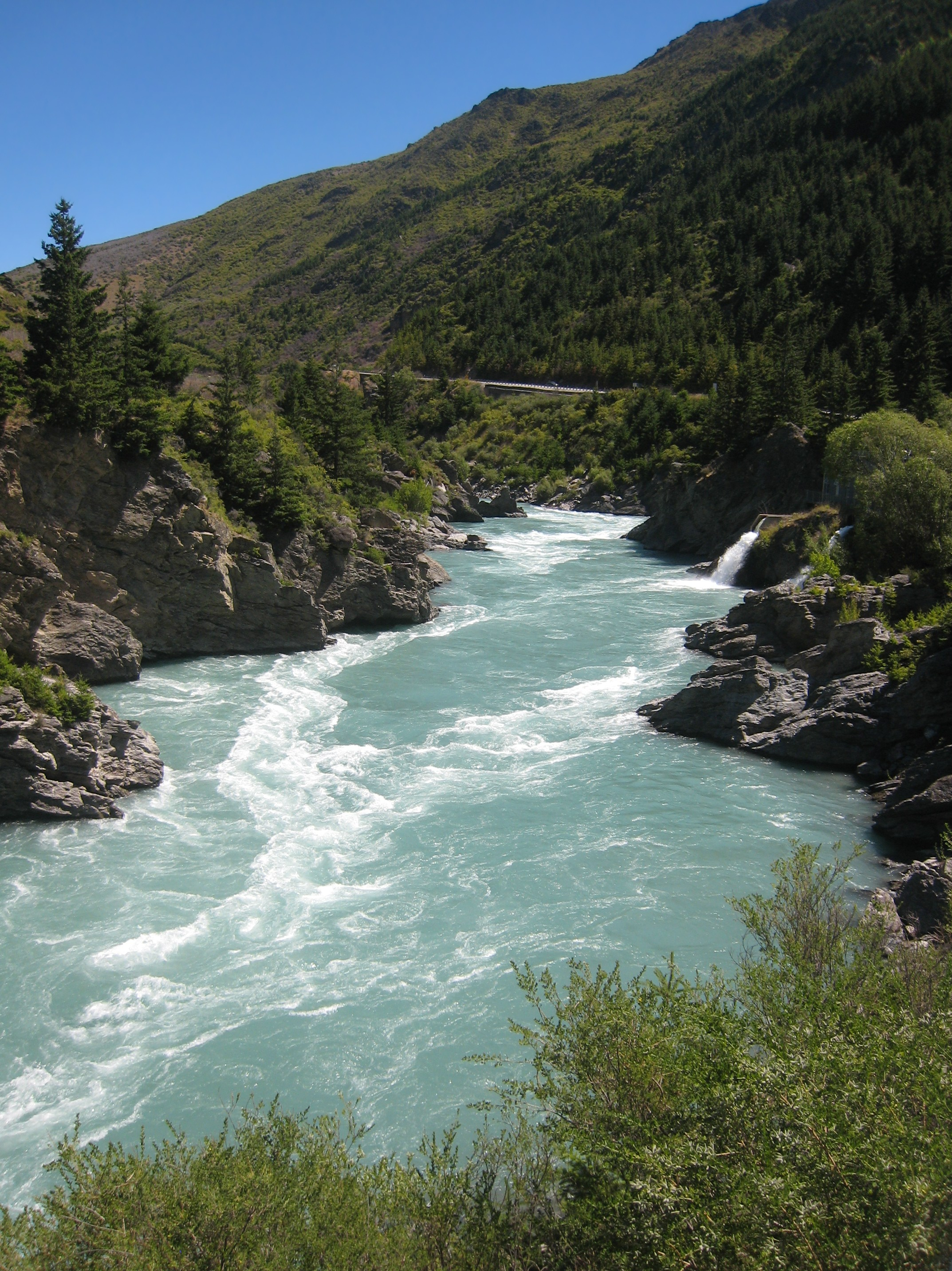 Kawarau Gorge, where Roaring Meg joins the Kawarau River, in central Otago, New Zealand. Roaring Meg was the site of the country's first hydroelectric power station.